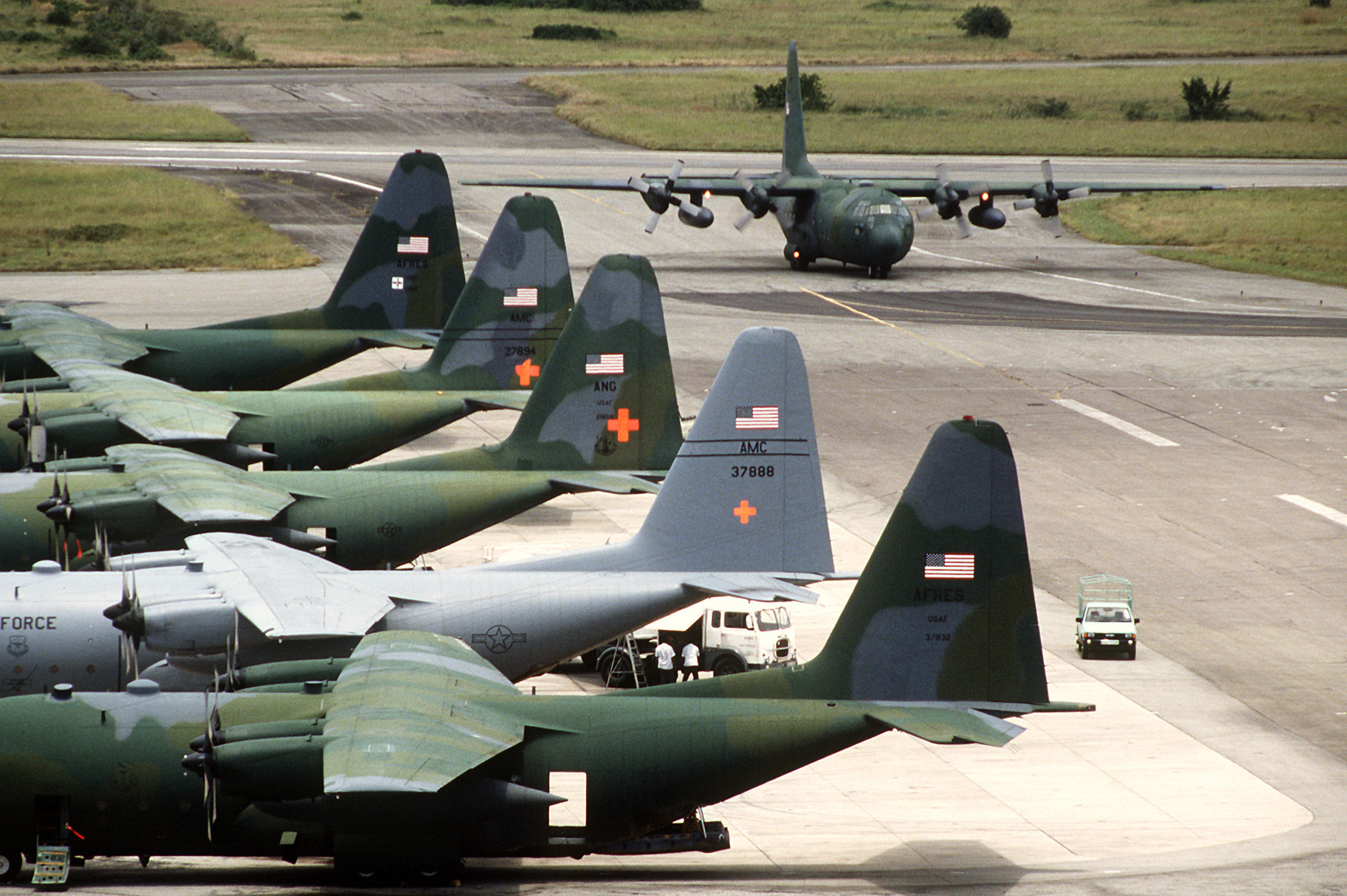 Starving Somalians spell "Relief" A-F-R-E-S. Aug. 21, 1992 - Feb. 28, 1993 -- Air Force Reserve airlift units participated in Operation Provide Relief/Restore Hope, a massive airlift of food and medical supplies to millions of starving Somalians. More than eighteen U.S. Air Force, Air National Guard and Air Force Reserve C-130s flew 20 missions per day from Moi International Airport (Mombasa Airport), to war-torn Somalia for Operation Provide Relief.